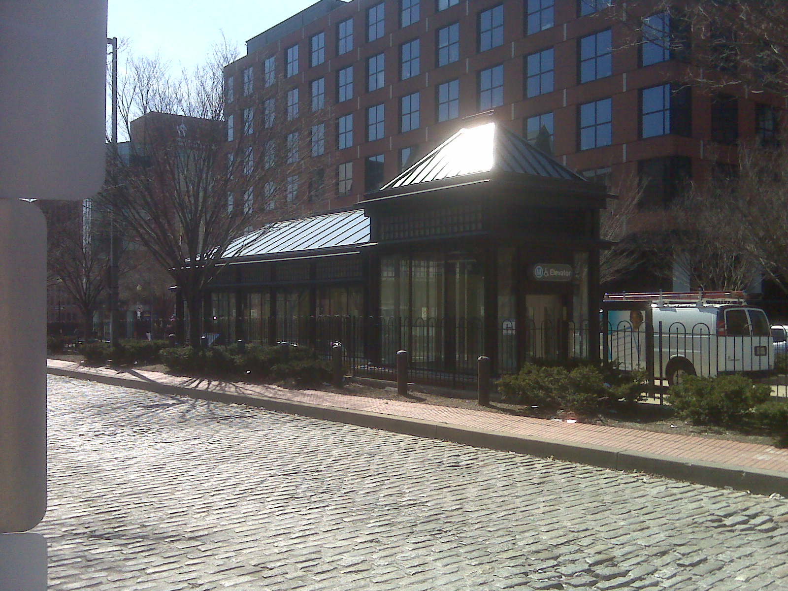 A view of the MTA Maryland Metro Subway's Johns Hopkins Hospital station entrance.